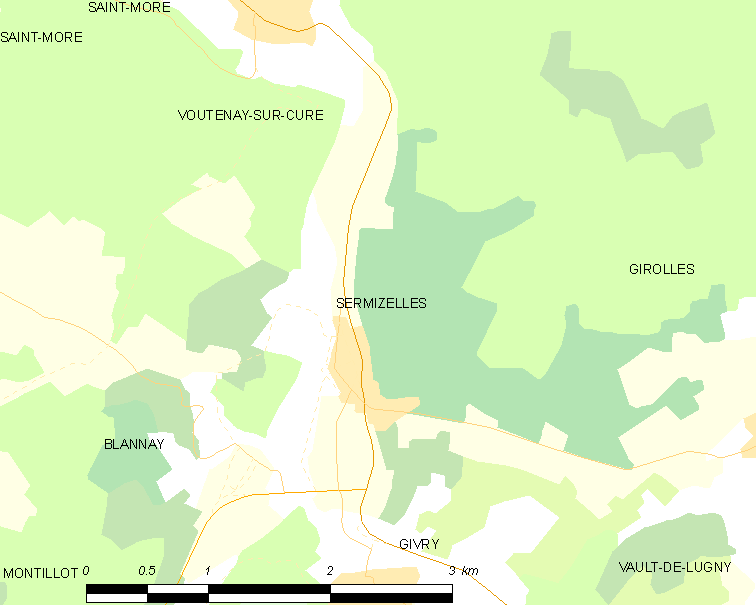 Map of French municipality Sermizelles